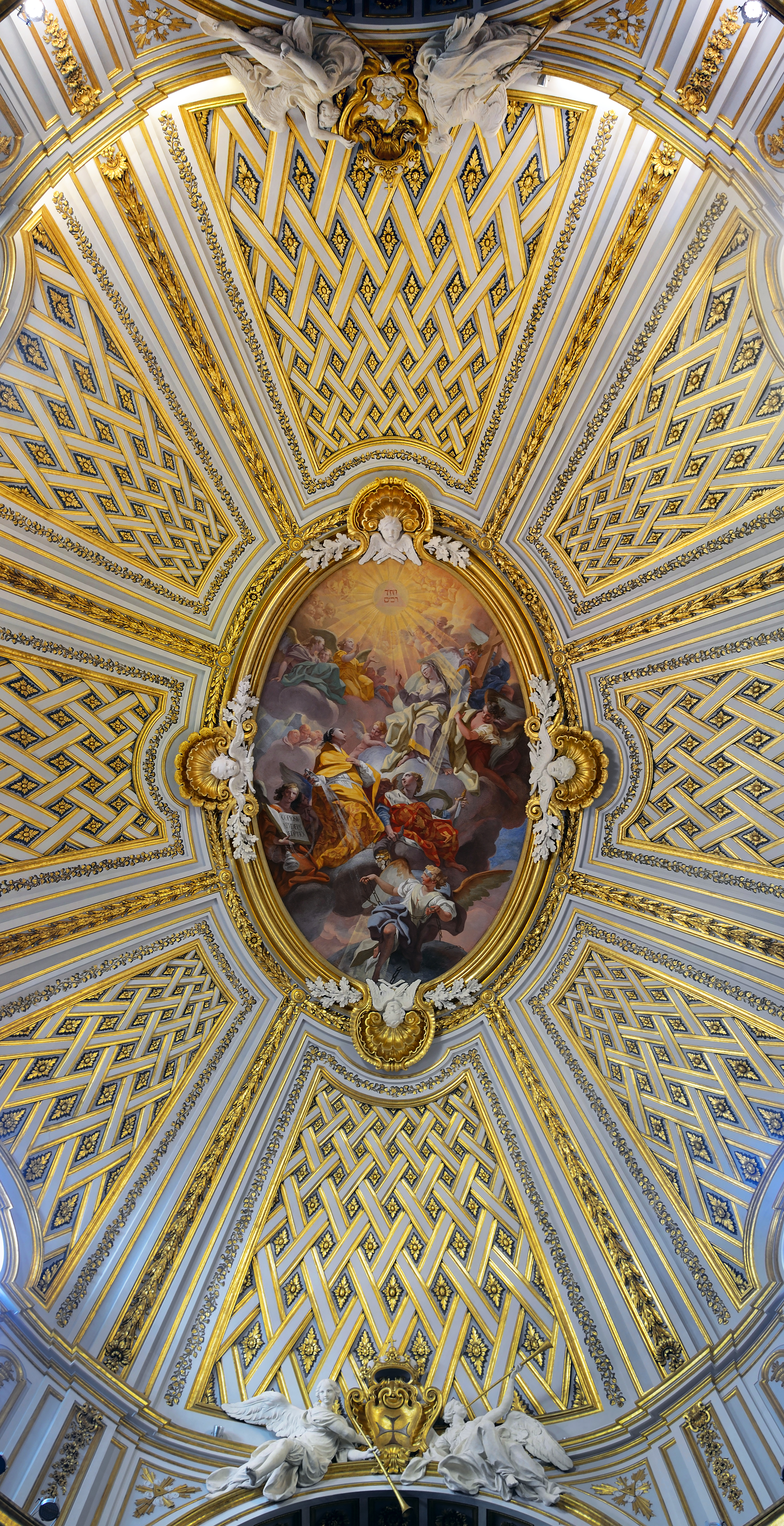 Ceiling of church Santissima Trinità a Via Condotti or Santissima Trinità degli Spagnoli (Rome): "the glory of Saint John of Matha", by Gregorio Guglielmi.